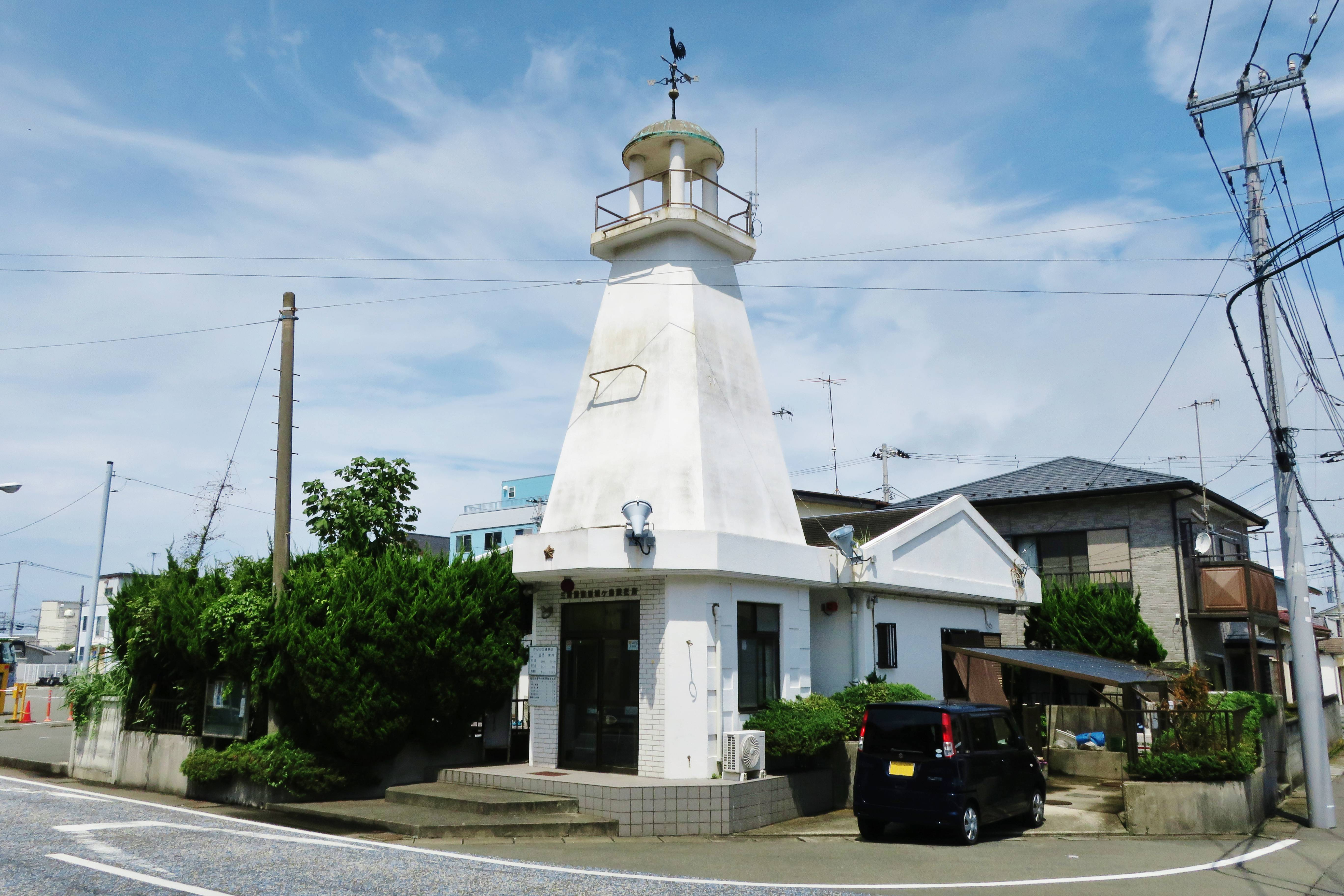 Jōgashima police box.